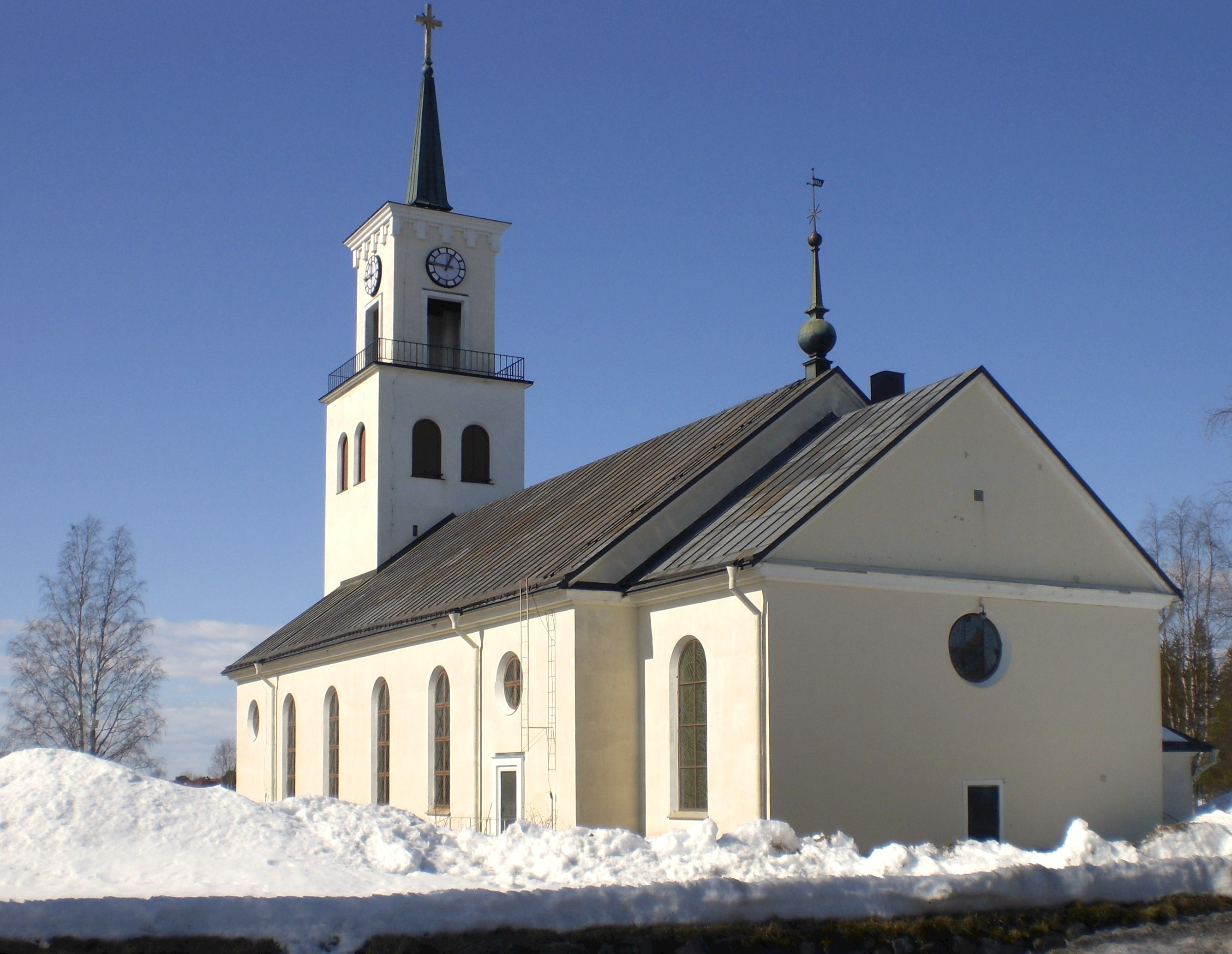 Töre church, Sweden